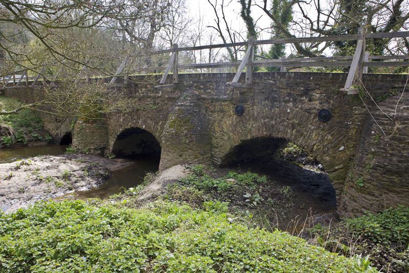 Author: Antony McCallum On the Wey. Eashing mediaeval double bridge built by Waverly Abbey Monks